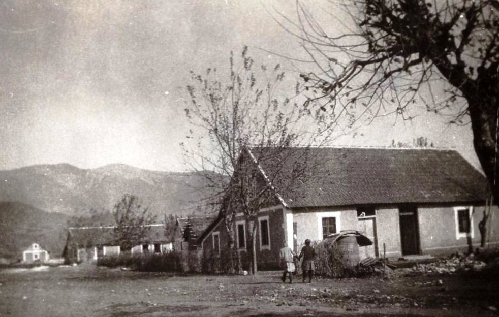 Village Josifovo, 1931 This media file is produced by Wikipedian in Residence in Category:Wikipedian in Residence at DARM in 2016.